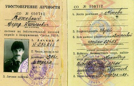 Russian ID